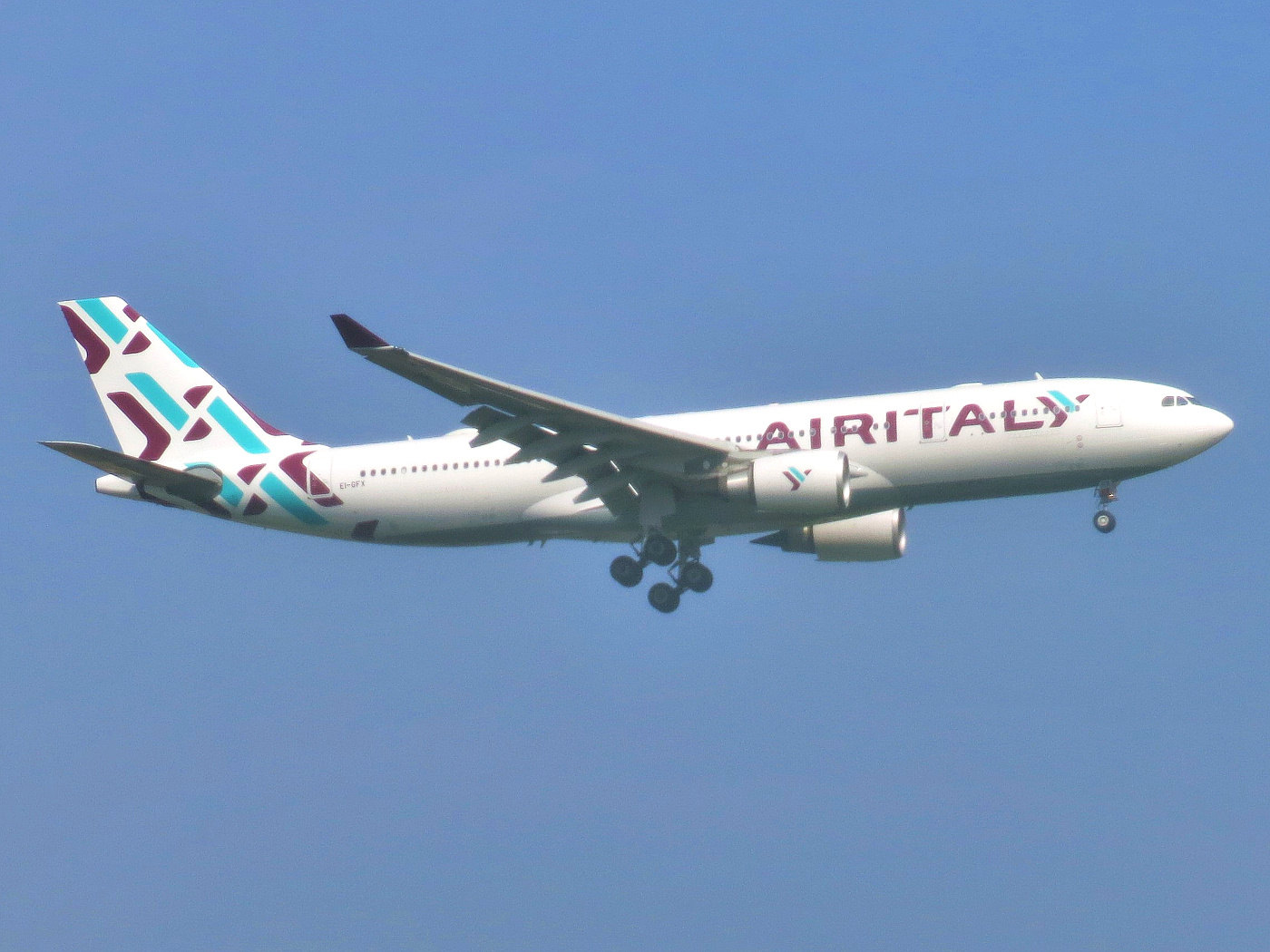 An Air Italy Airbus Airbus A330-200 is on final approach to John F. Kennedy International Airport on its first flight from Milan Malpensa Airport as Flight IG901.